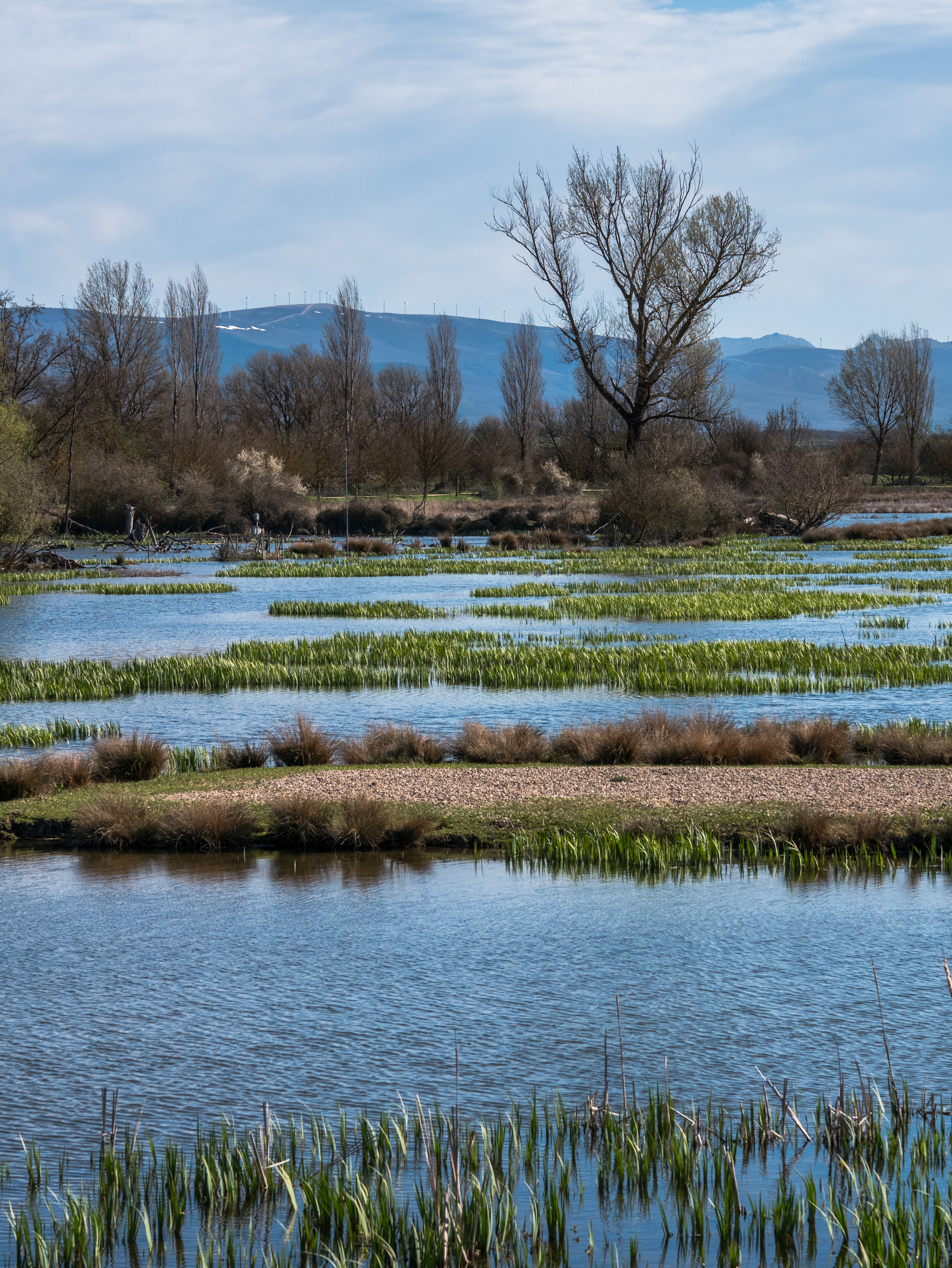 The Salburua Wetlands. Vitoria-Gasteiz, Basque Country, Spain